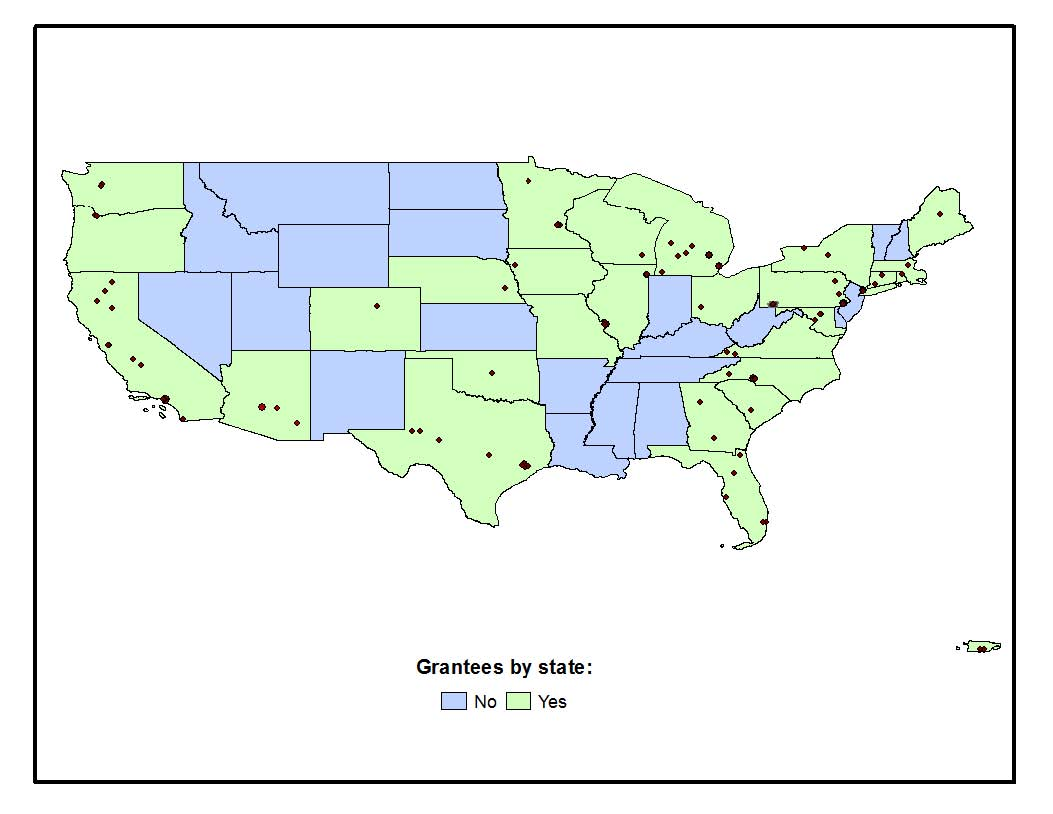 Map of United States illustrating the location of Pathways out of Poverty grantees.